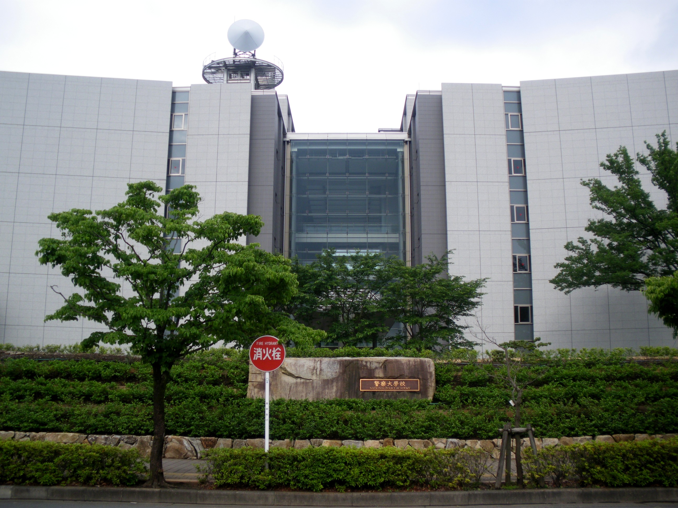 A photo of an overview of National Police Academy,Asahicho,Fuchu city,Tokyo,Japan.